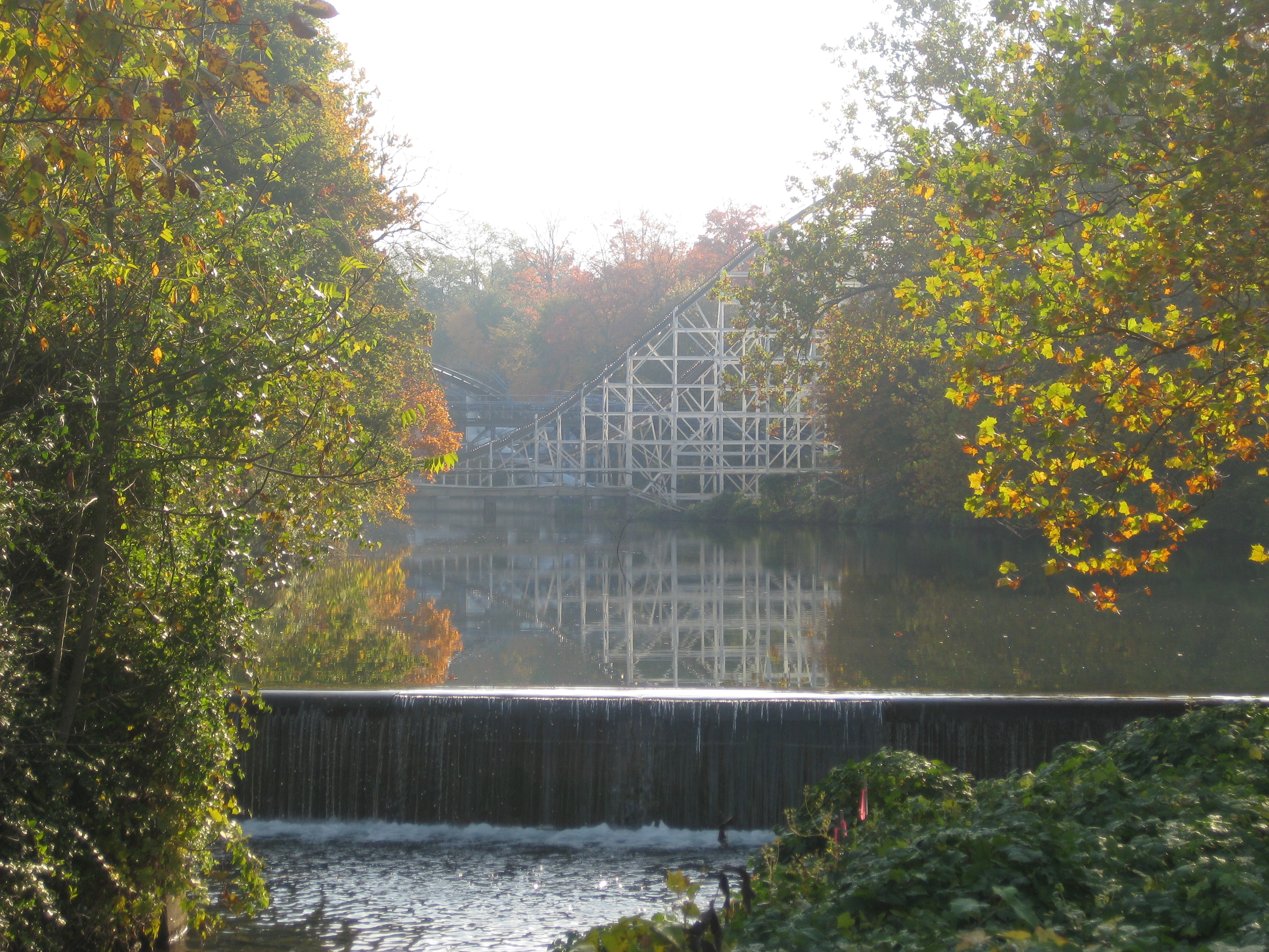 This area photographed was, from 1932-1972, the Sunken Garden at Hersheypark. This picture was taken a couple of months before construction began on the roller coaster Skyrush, which did not open until 2012.